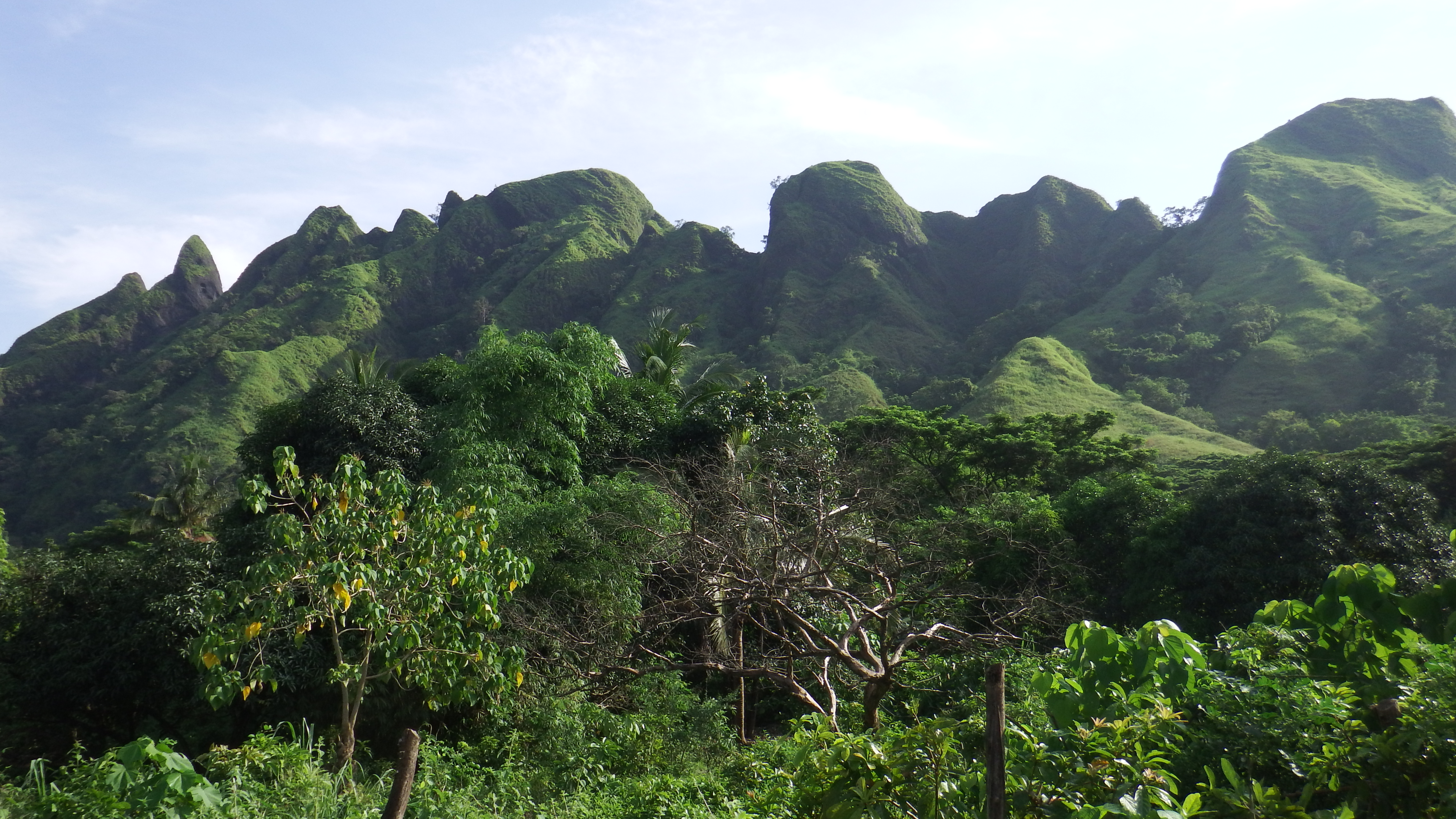 Angels Mountain, San Jose, Occidental Mindoro, Philippines